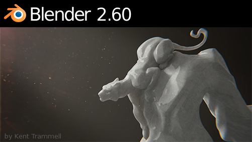 Splash screen of Blender 2.60. The splash screen was made by Kent Trammell